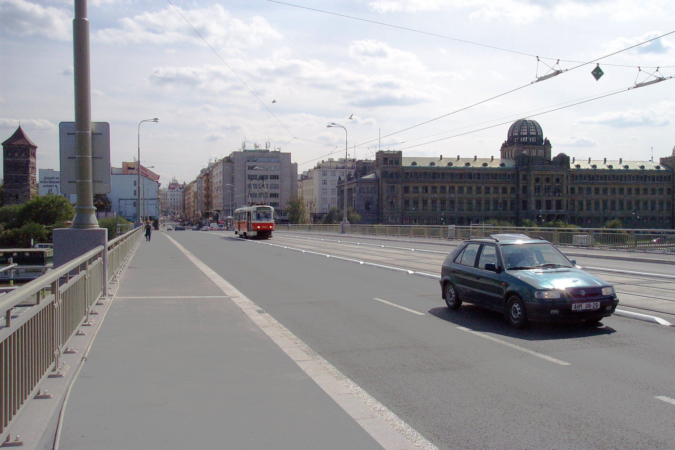 Štefánikův most bridge (Štefánik's bridge) in Prague after reconstruction, 2007